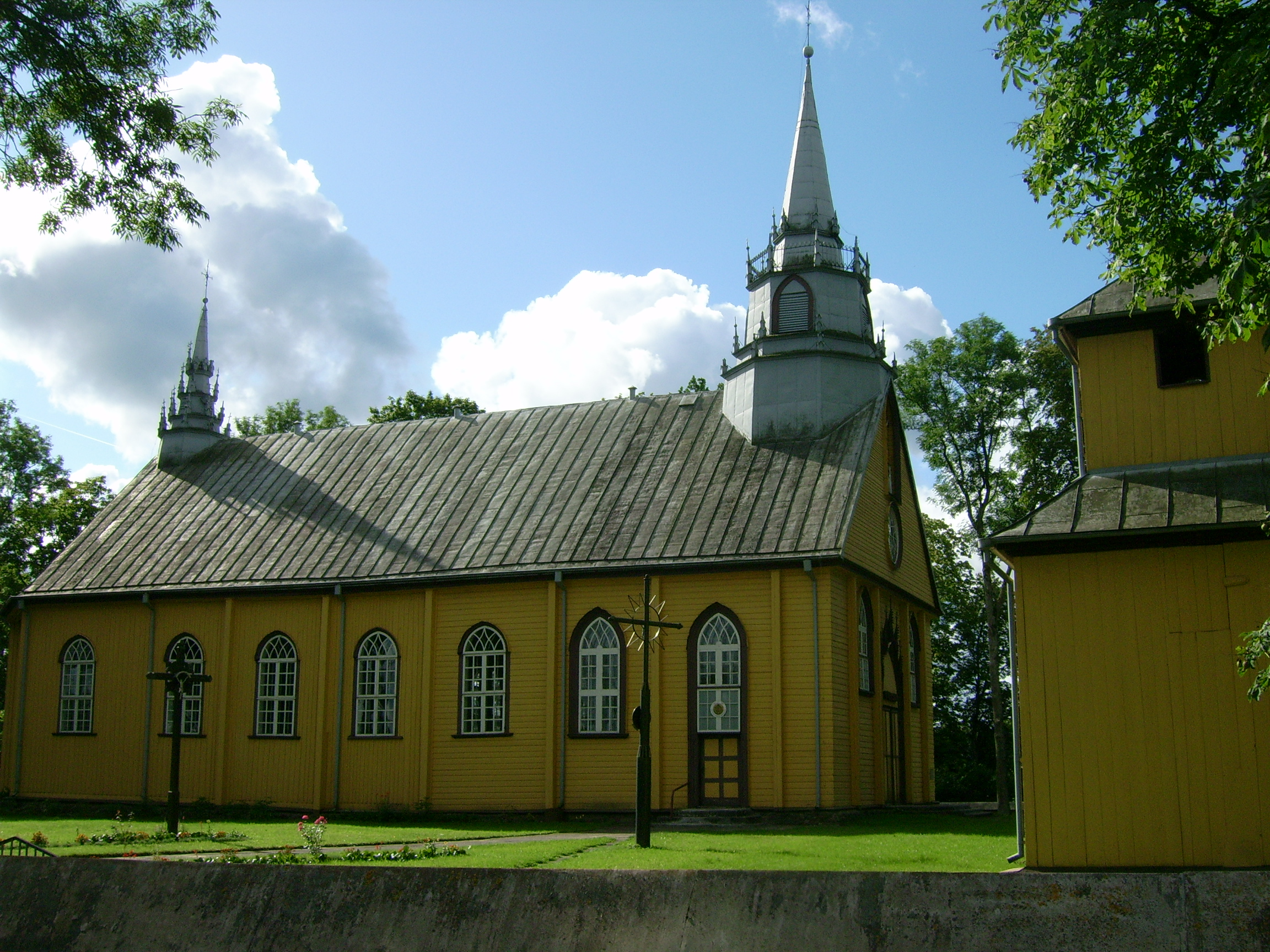 Church in Eržvilkas